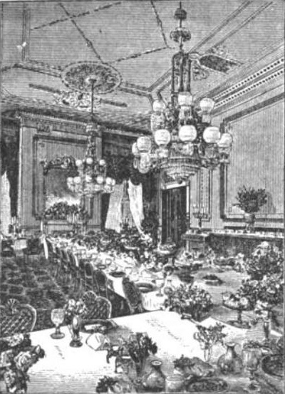 Engraving depicting the State Dining Room of the White House in Washington, D.C., during the administration of President Franklin Pierce (March 4, 1853–March 4, 1857).